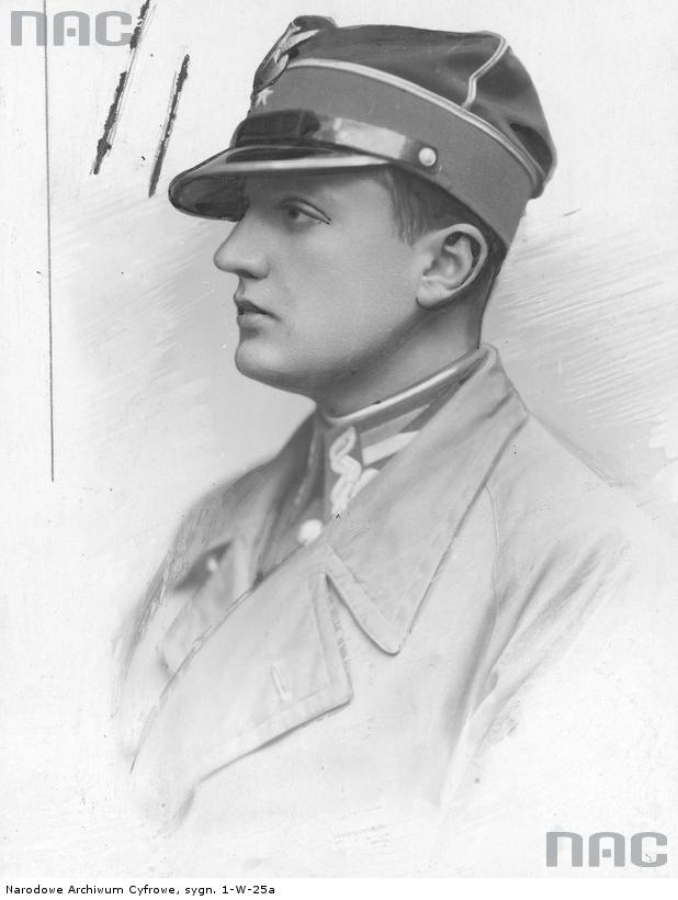 Andrzej Bohomolec (1900-1988), Polish soldier, sailor and writer.